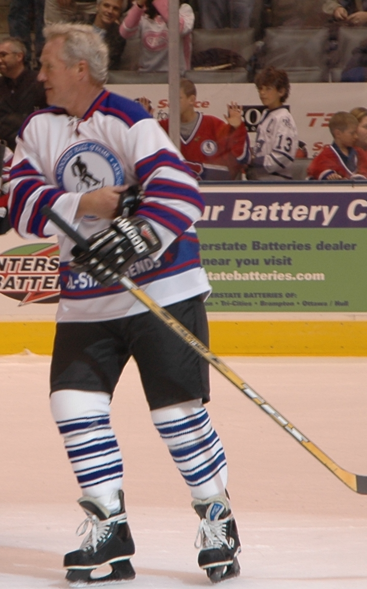 Darryl Sittler played with the All-Star Legends 2008 in Toronto